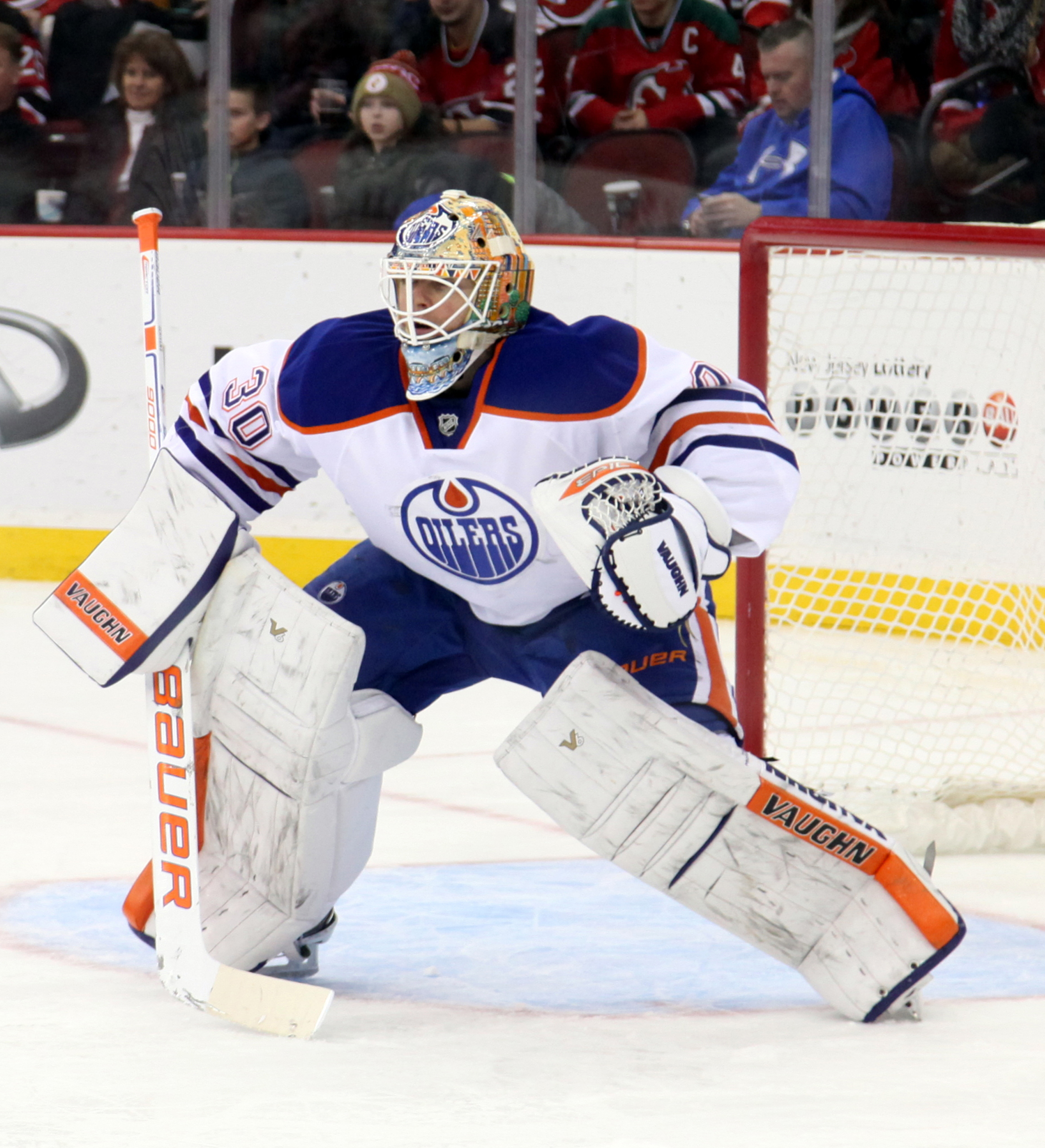 Scrivens in February 2015.